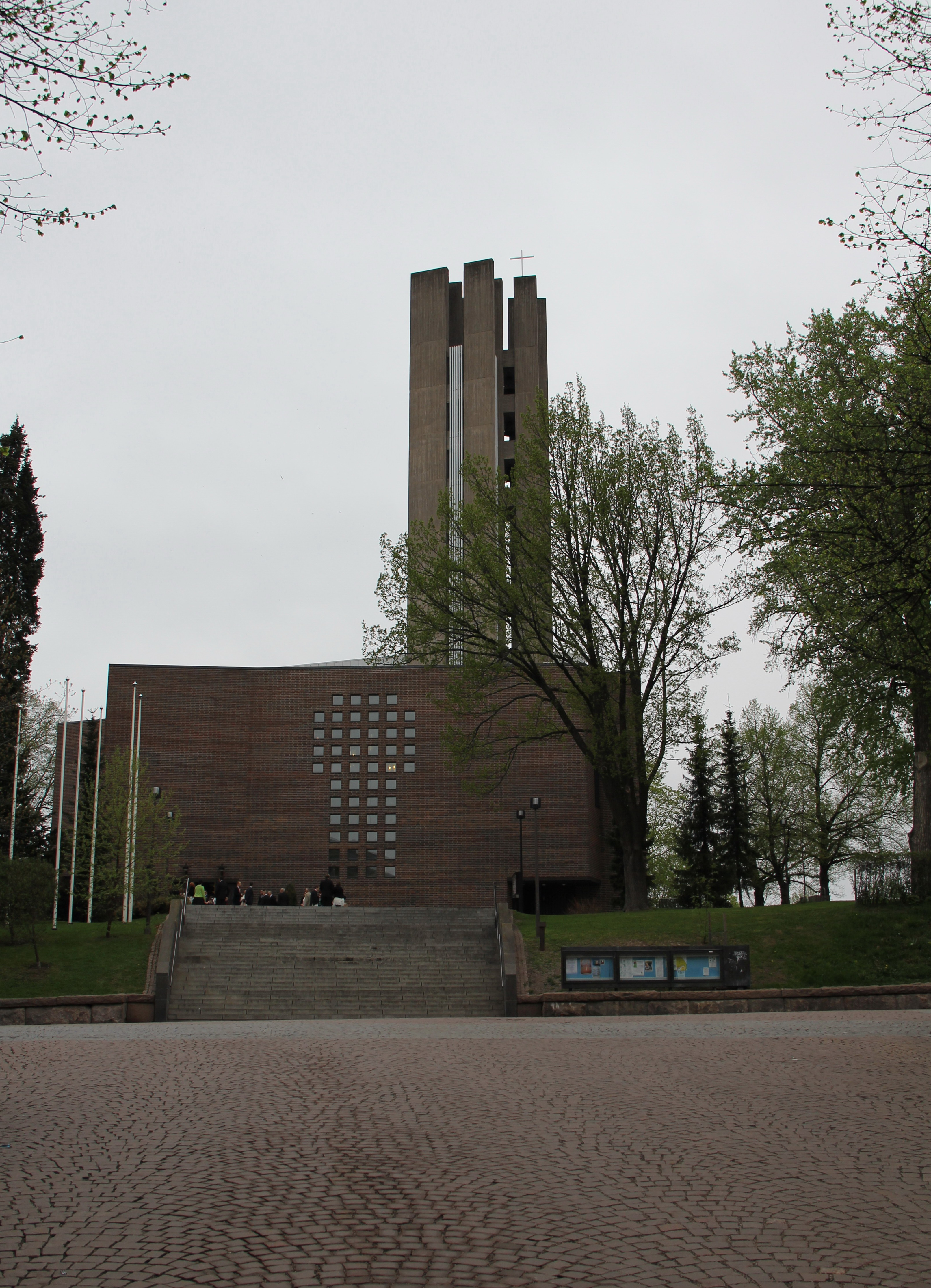 Church of The Cross, Lahti, Finland. Designed by architect Alvar Aalto, completed in 1978.